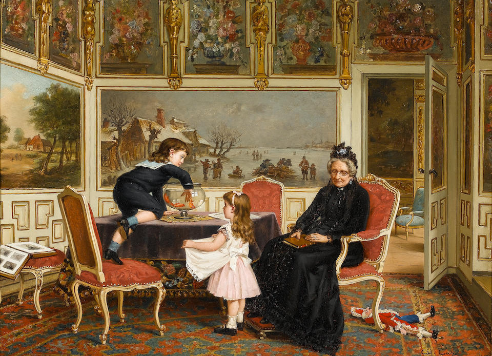 Mischief